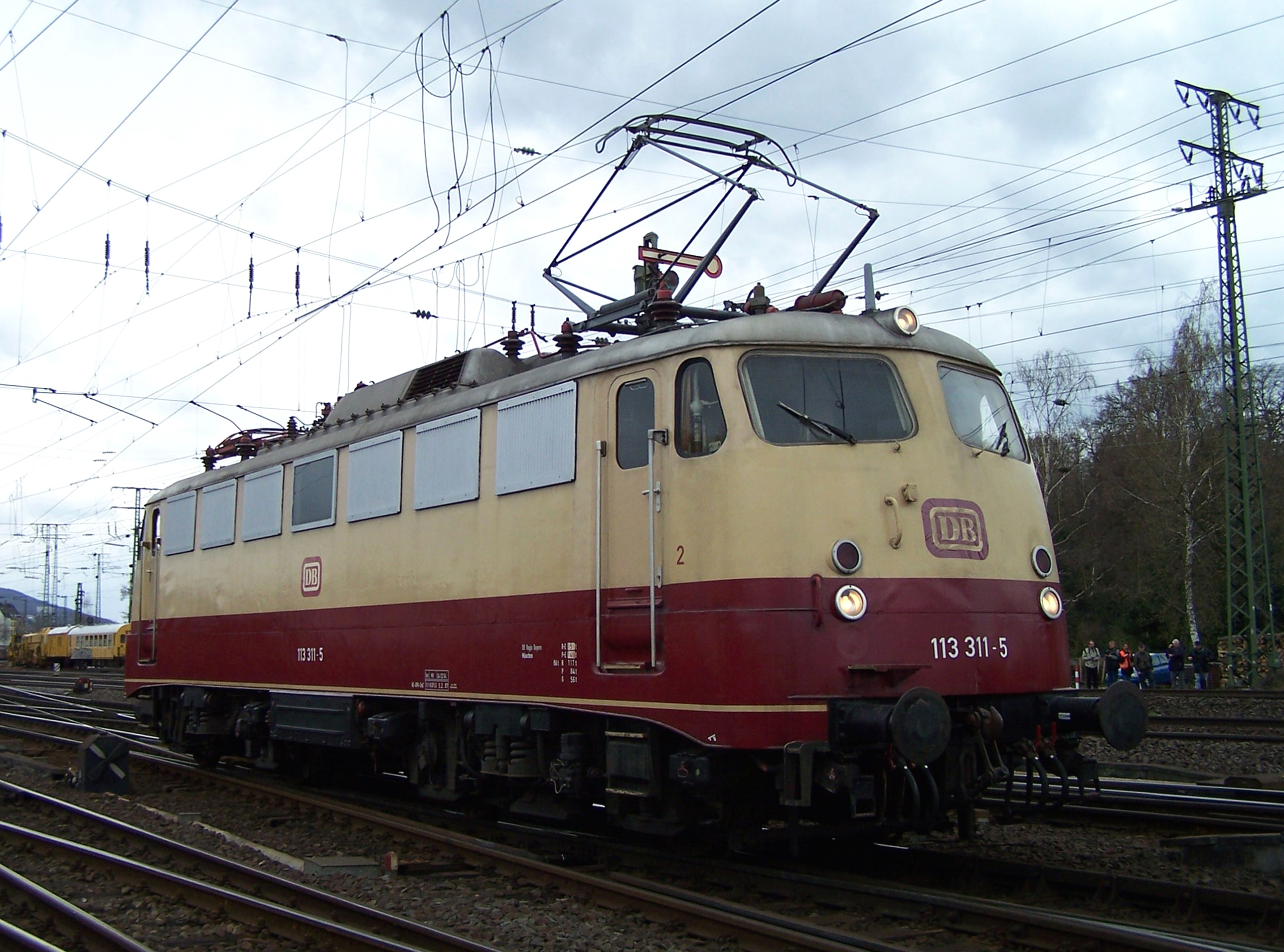 Electric locomotive 113 311 during a locomotive parade at the DB Museum in Koblenz-Lützel, a local branch of the Transport Museum in Nuremberg, April 2010